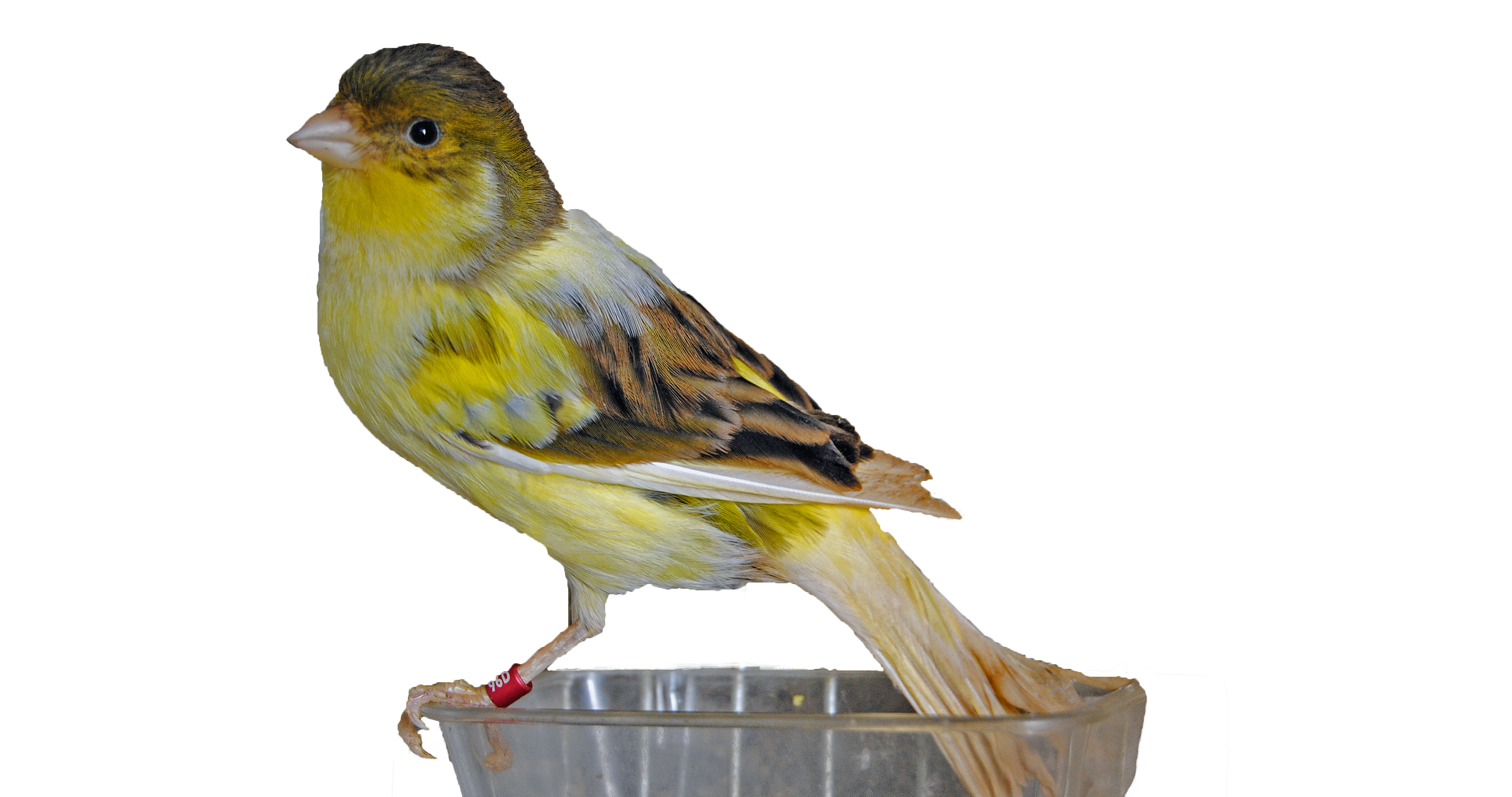 Timbrado Español.